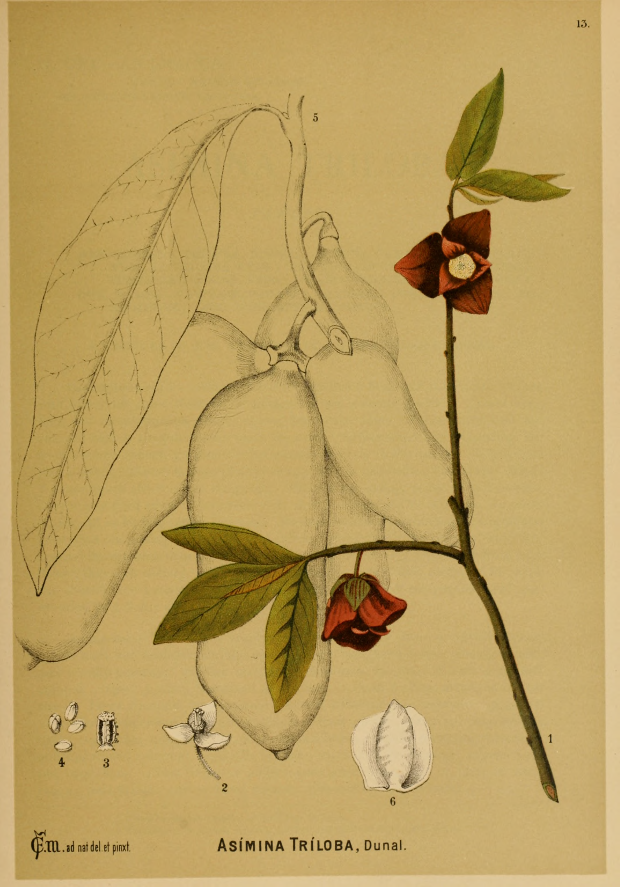 Plate 13, Asímina tríloba From American Medical Plants 1887.